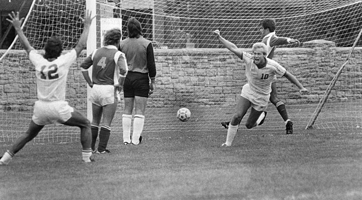 Soccer action at the University of Wisconsin--Madison. Photograph by Morry Gash, ca. 1975. University of Wisconsin Digital Collections